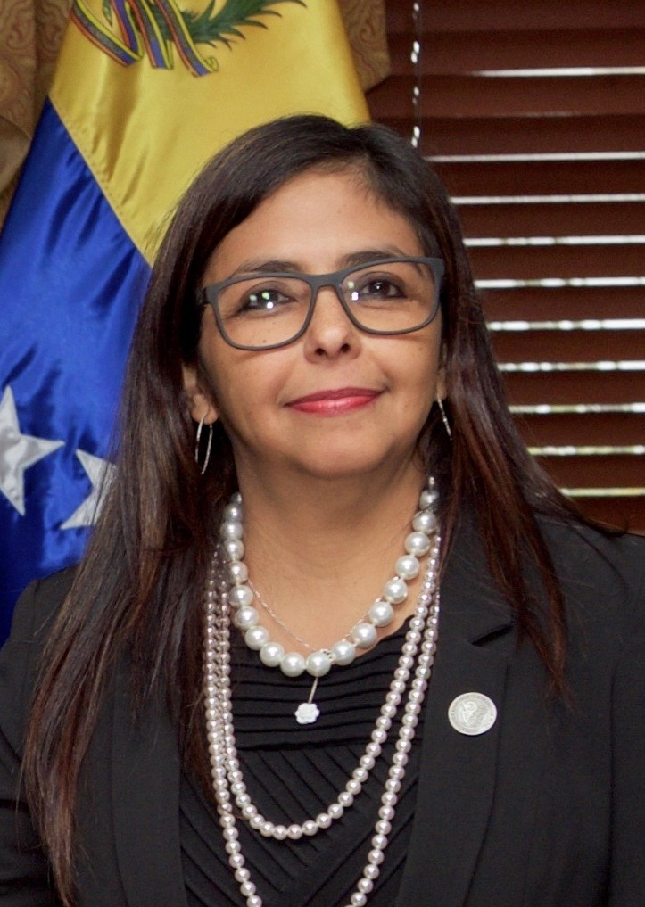 U.S. Secretary of State John Kerry shakes hands with Venezuelan Foreign Minister Delcy Rodriguez on June 14, 2016, at the Ministry of Foreign Affairs in Santo Domingo, Dominican Republic, before they held a bilateral meeting on the sidelines of the annual Organization of American States General Assembly. [State Department photo/ Public Domain]